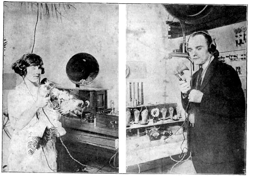 Caption: "Two Happy Hearts Are United by Radio!: At the left, Miss Mable Brady, the bride; at the right, John H. Stone, the groom. They were married by radio at different stations in Dallas, Texas. The minister who performed the ceremony was at a third station. The marriage vows were spoken by the minister and repeated by the marital pair by radio." The wedding took place on June 29, 1922. The three participating Dallas radio stations were: WFAA, A. H. Belo & Company-Dallas Morning News (minister Rev. Thomas H. Harper); WRR, City of Dallas (groom John Henry Stone); and WDAO, Automotive Electric Company (bride Mabel Inez Brady)